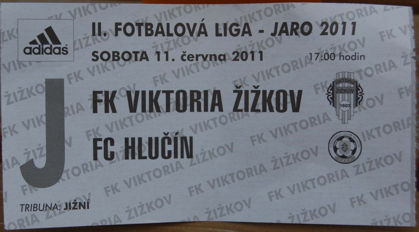 Ticket for Czech Second Division match between FK Viktoria Žižkov and FC Hlučín